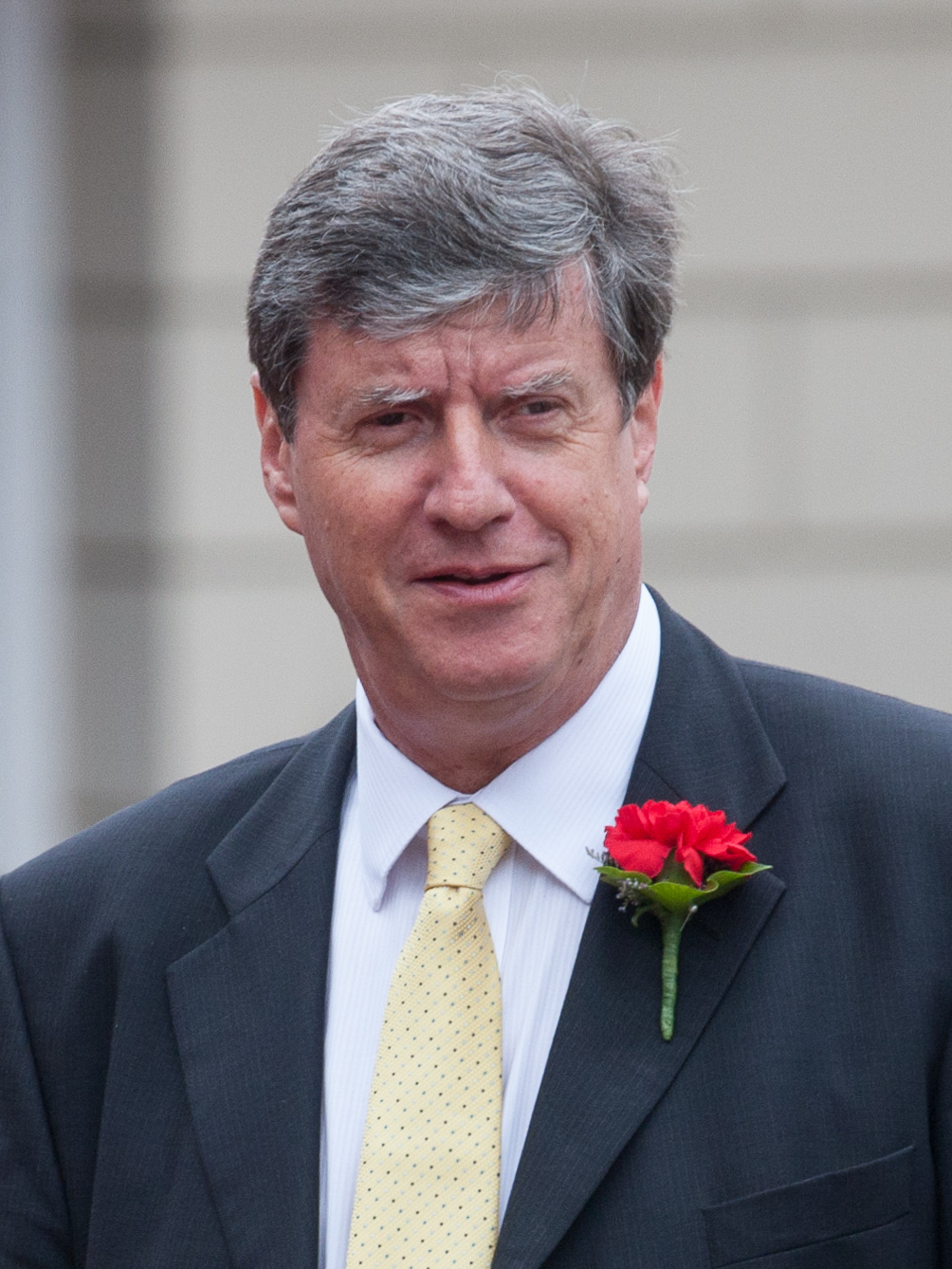 Deputy Kevin Lewis in the Royal Square, in St. Helier in July 2012.